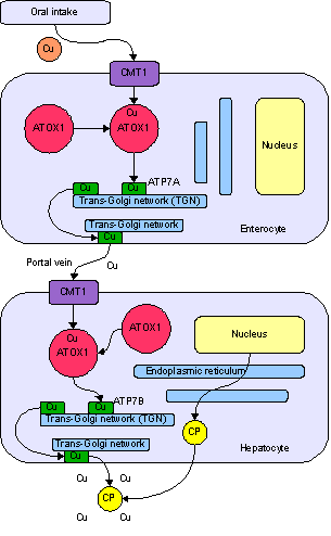 Copper metabolism diagram